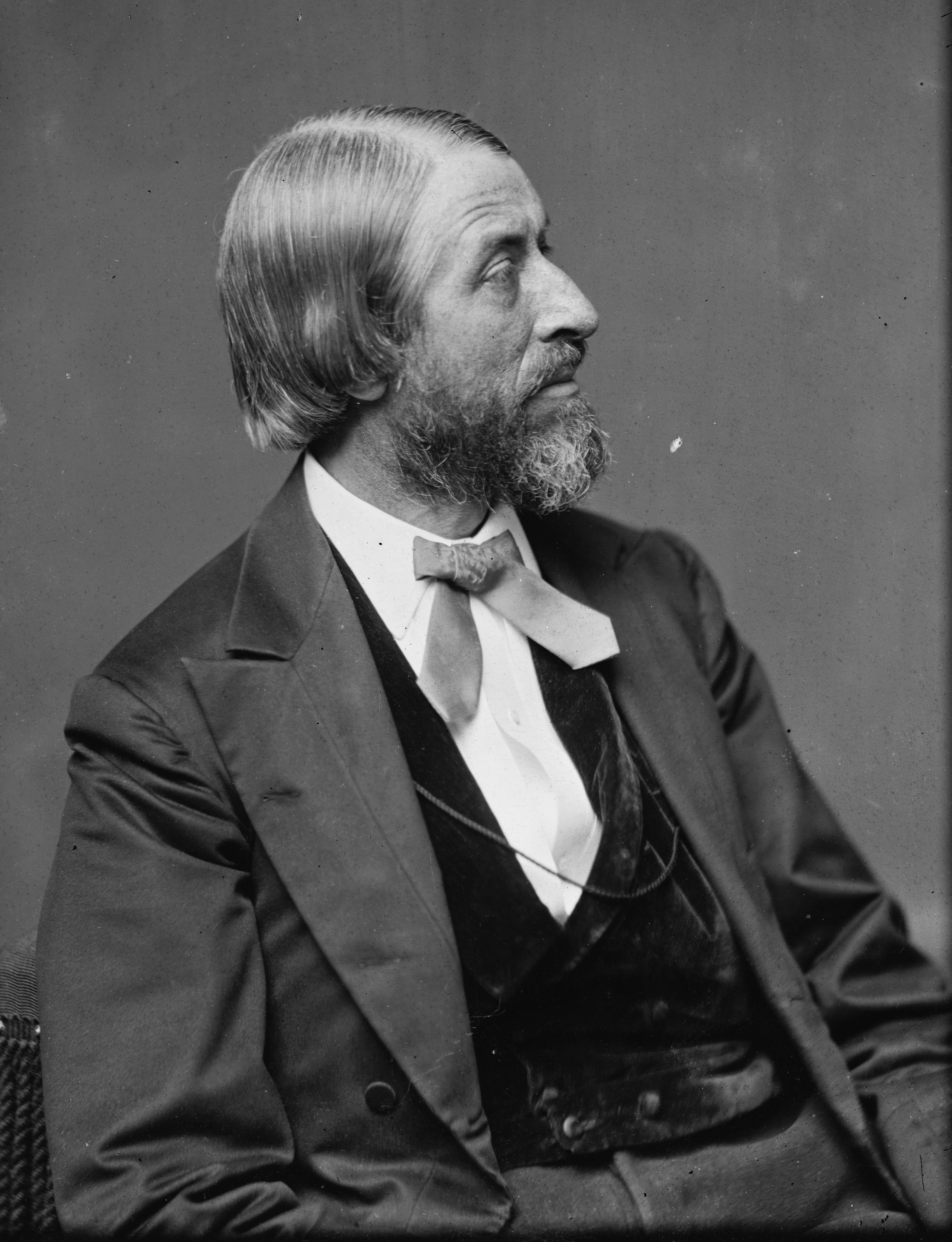 Ainsworth Rand Spofford. Library of Congress description: "Spofford, Ainsworth, Librarian of Congress".